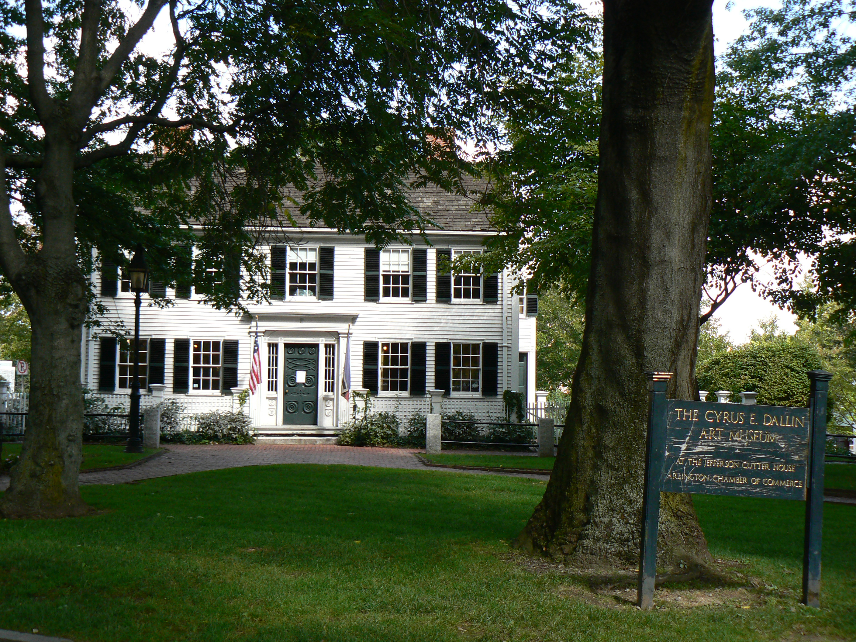 A photo of the historic Jefferson Cutter House in the center of Arlington, Massachusetts, which houses a museum to Cyrus Dallin.